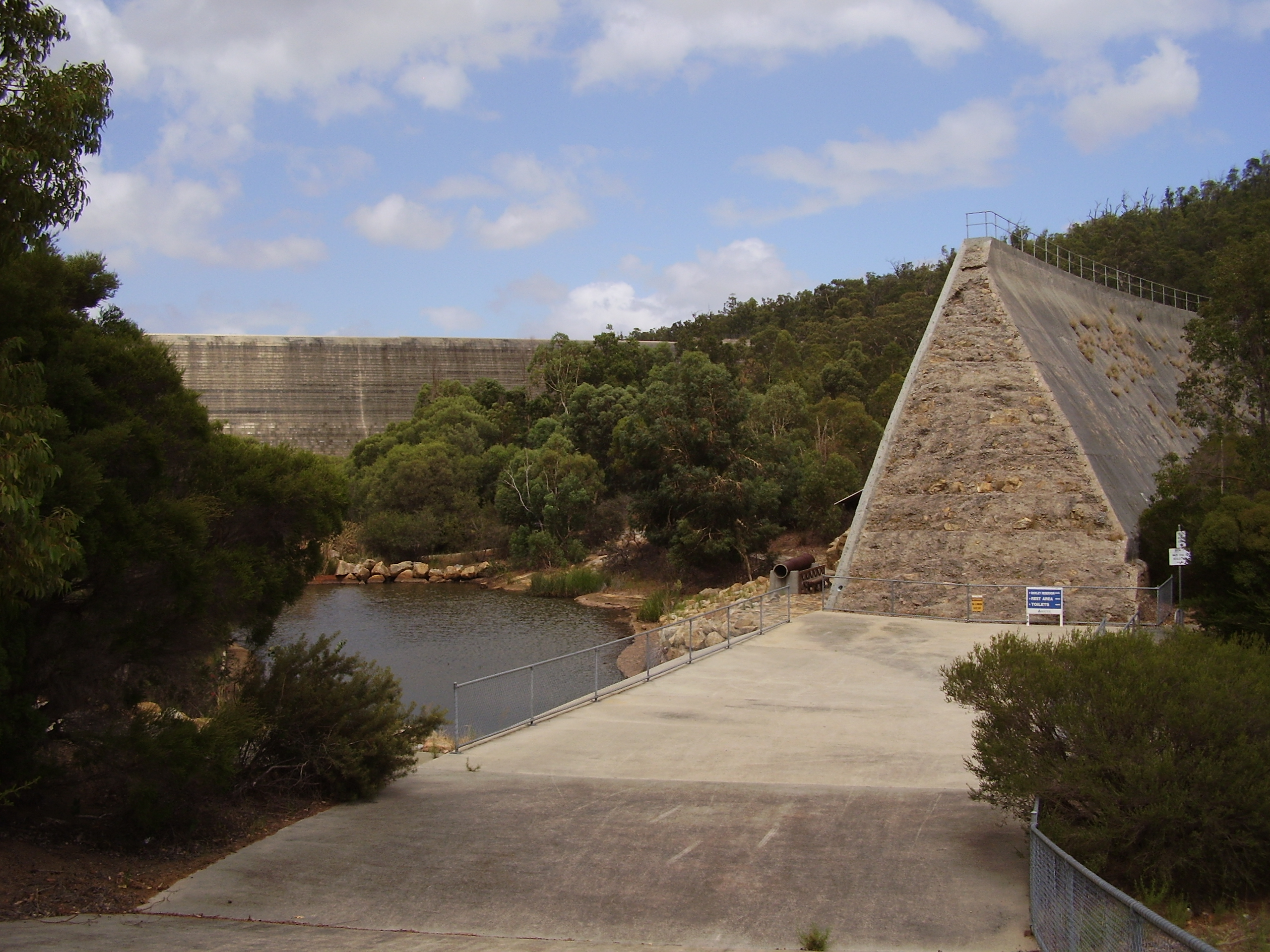 Part of the (partially-demolished) old Victoria Dam in the foreground, with the new Victoria Dam in the background.